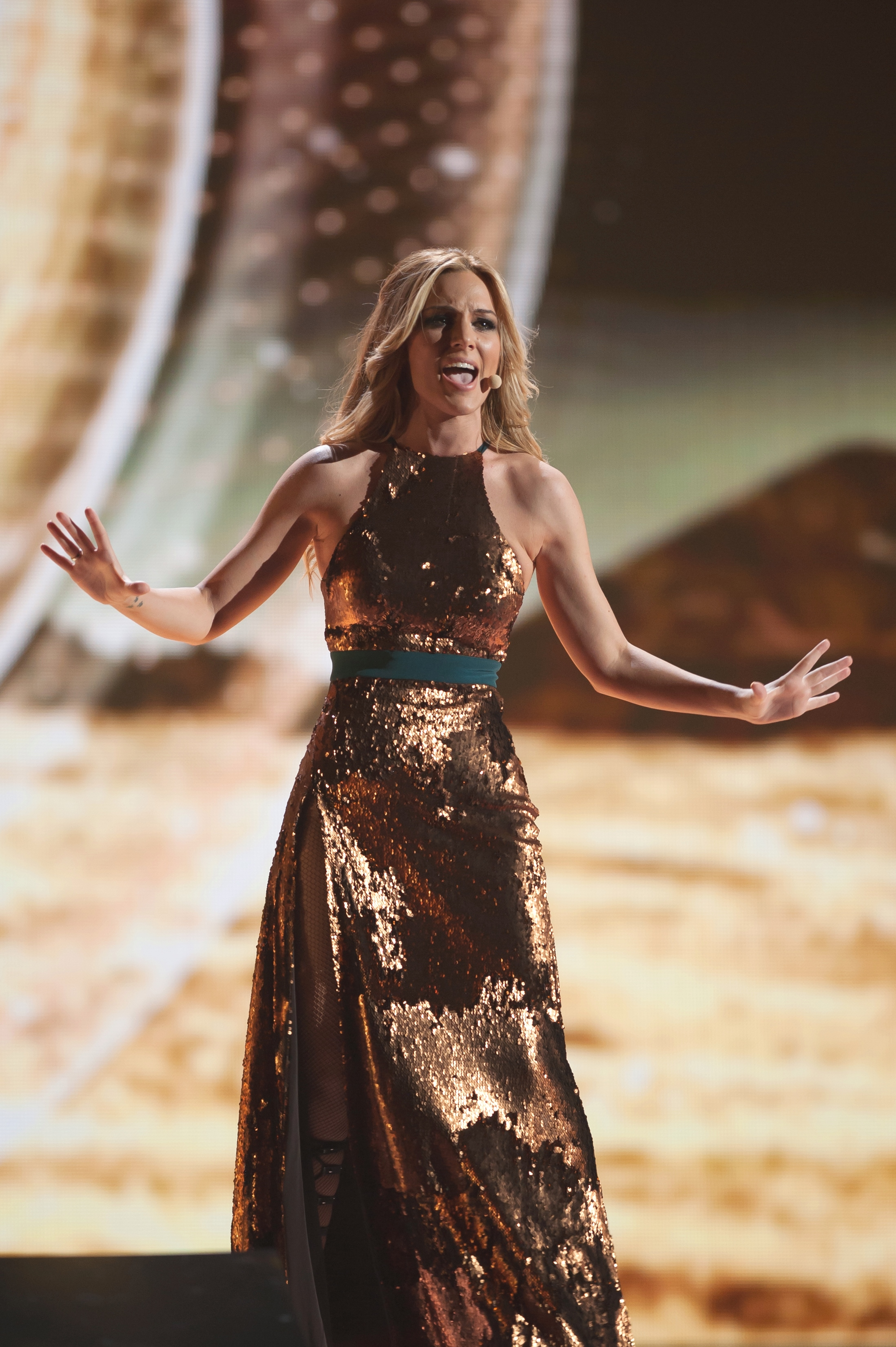 Eurovision Song Contest Vienna 2015: Edurne